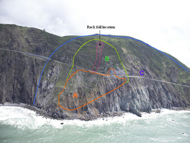 This photo of the rocky hillside at Devil's slide was anotated by Caltrans to show how the hillside gave way closing State Route 1 in January 1995.